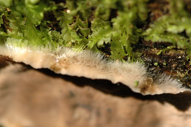 Veluticeps abietina from Commanster, Belgium. If you think this is a different taxon, please contact James Lindsey.